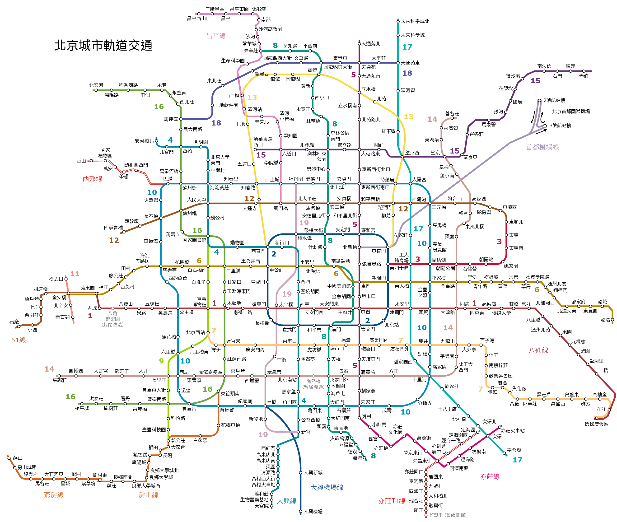 Beijing Subway traditional Chinese version